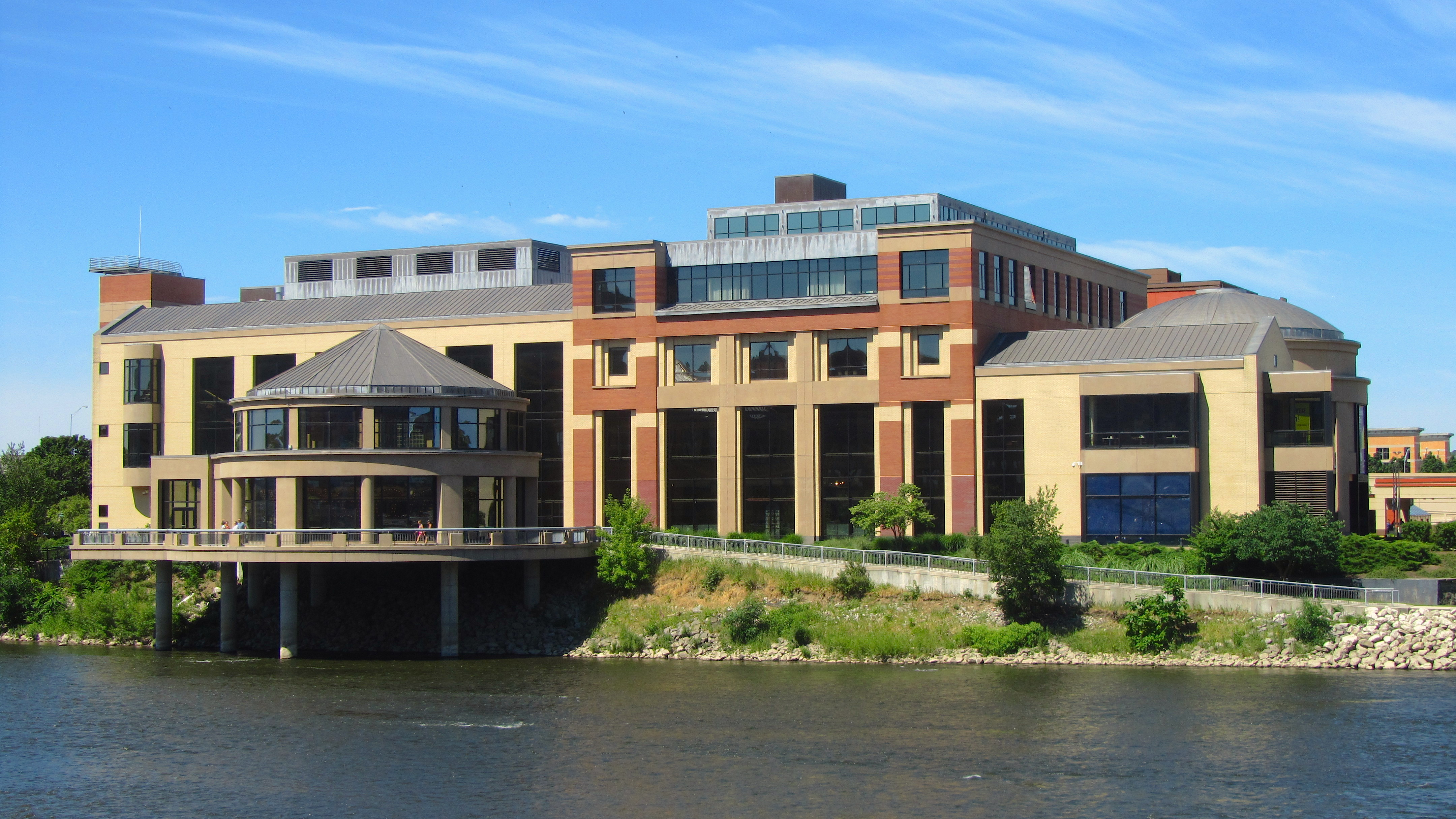 Grand Rapids Public Museum in 2012.